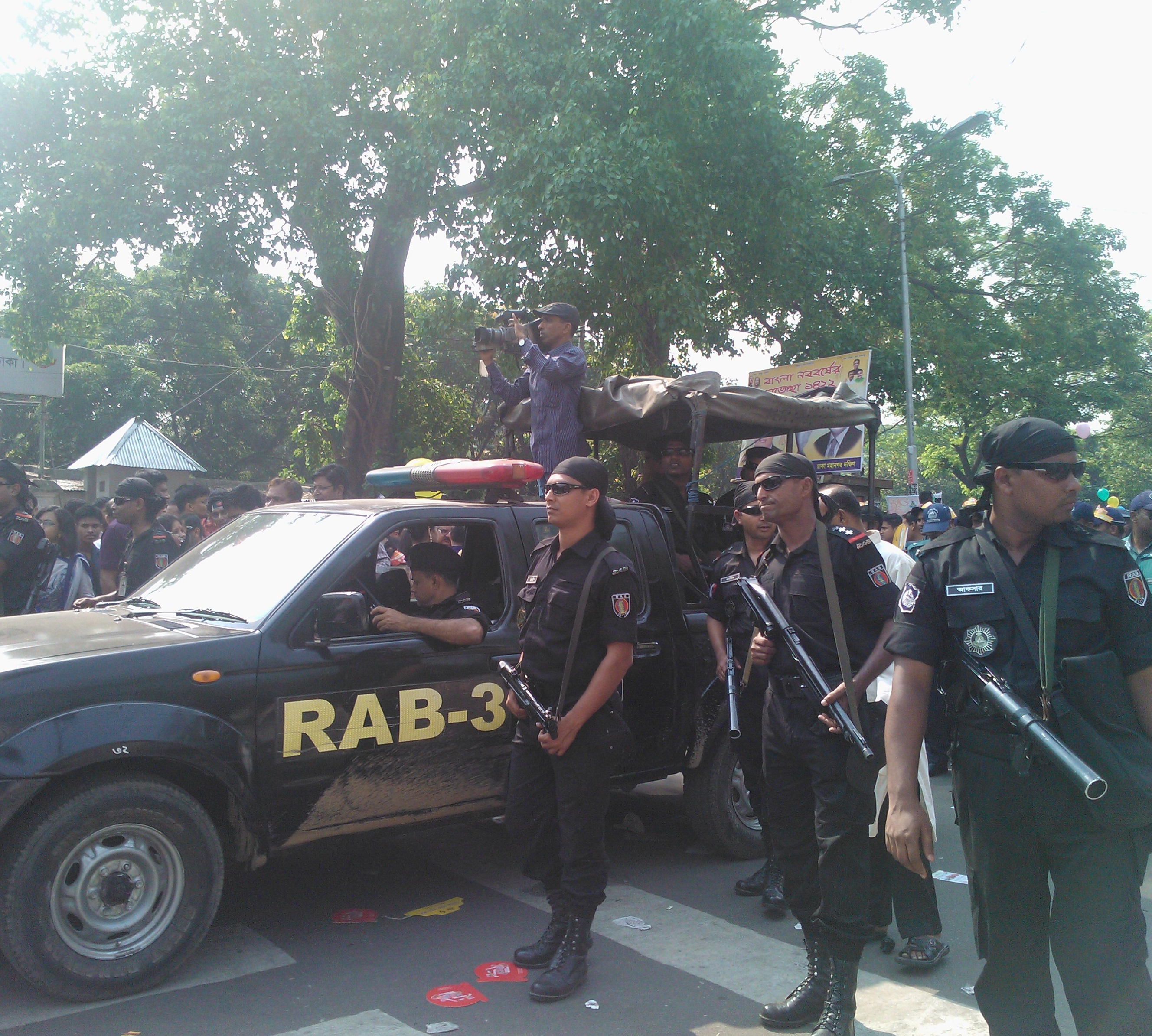 Rapid Action Battalion